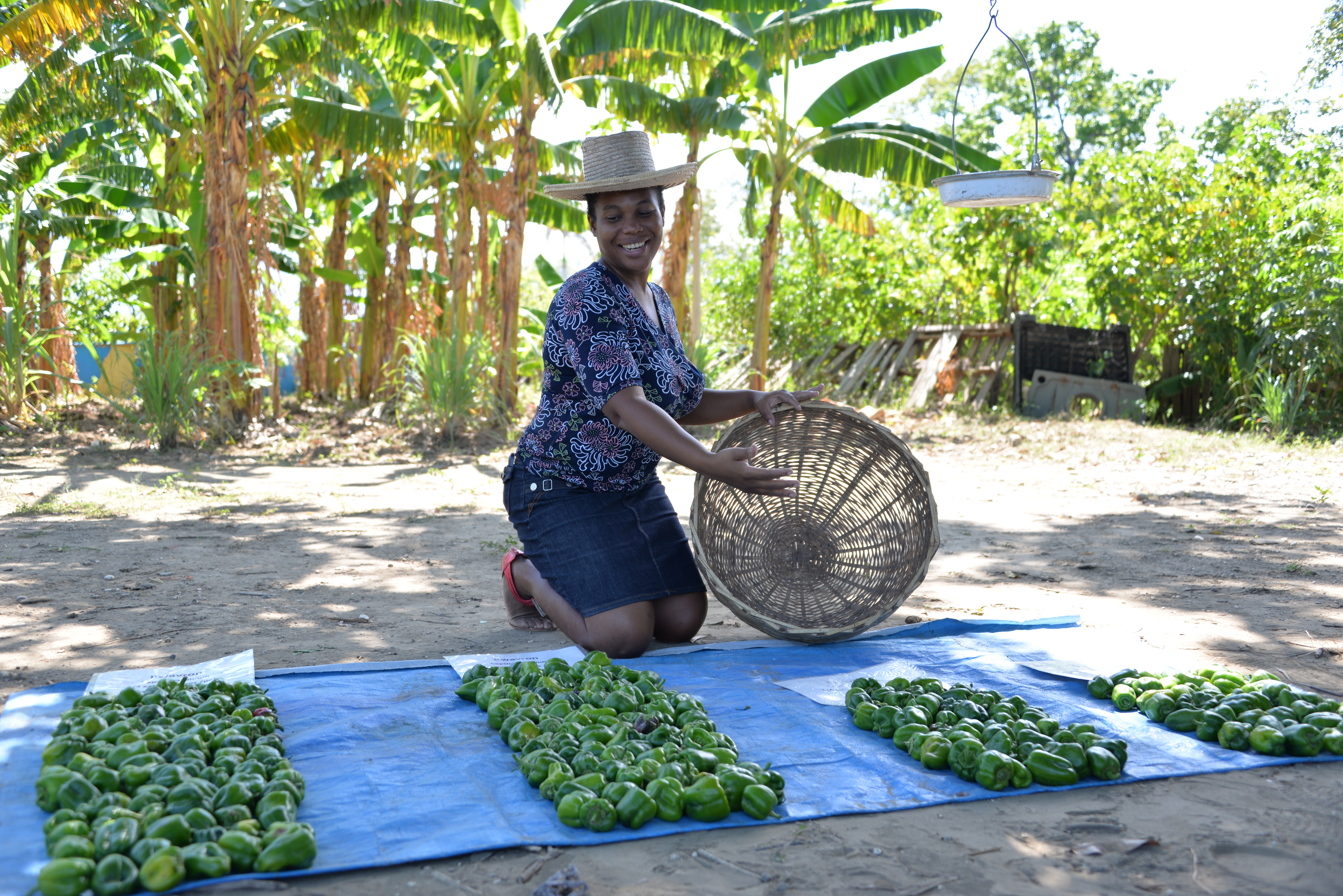 SOIL Administrator Ghislaine Jean Louis documents the harvest of peppers at a SOIL experimental garden Photo Credit Ricardo Venegas